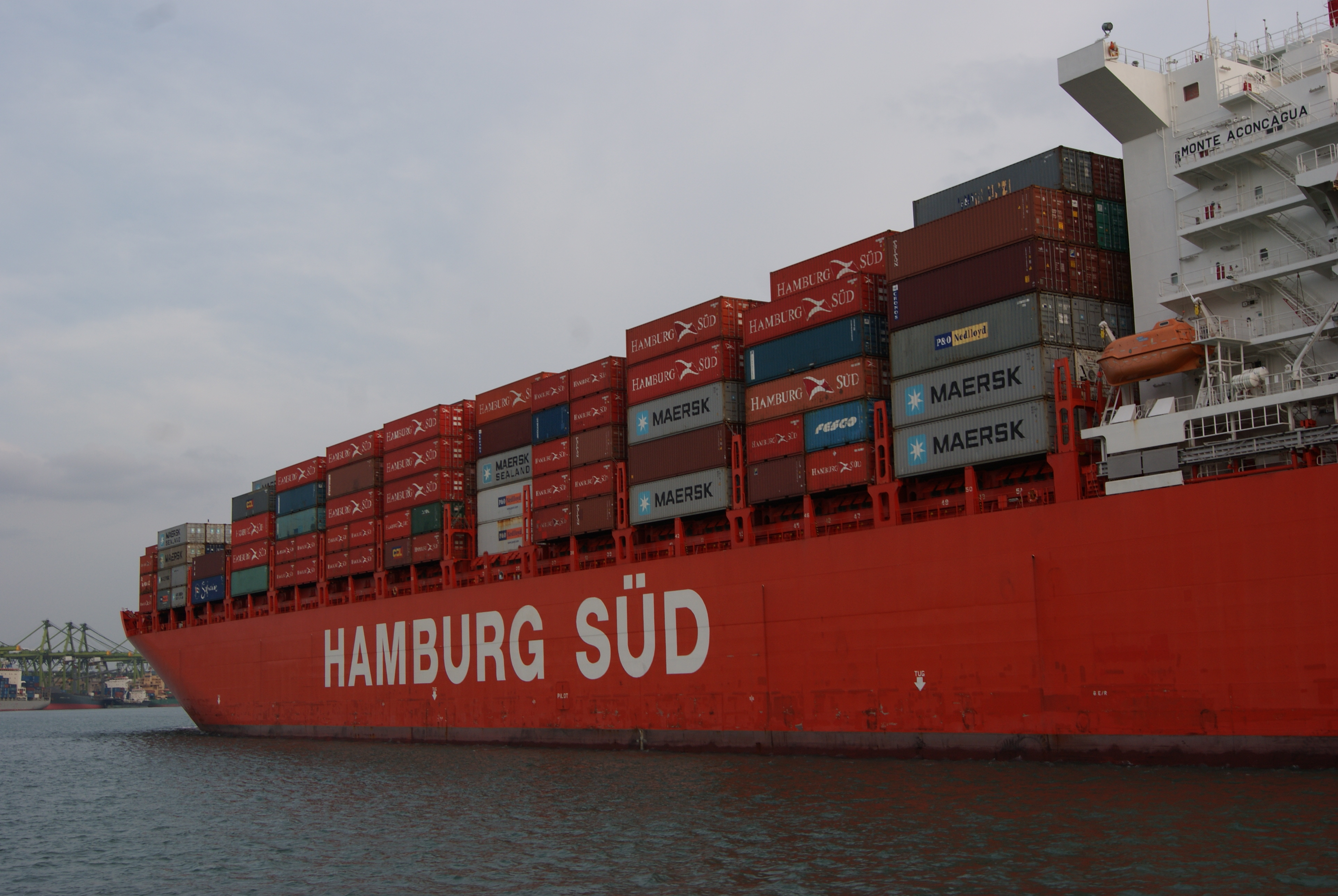 The Monte Aconcagua in Singapore waters.